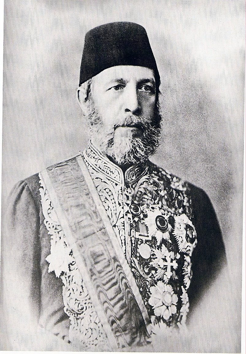 The Greek ottoman statesman Alexander Karatheodori Pasha